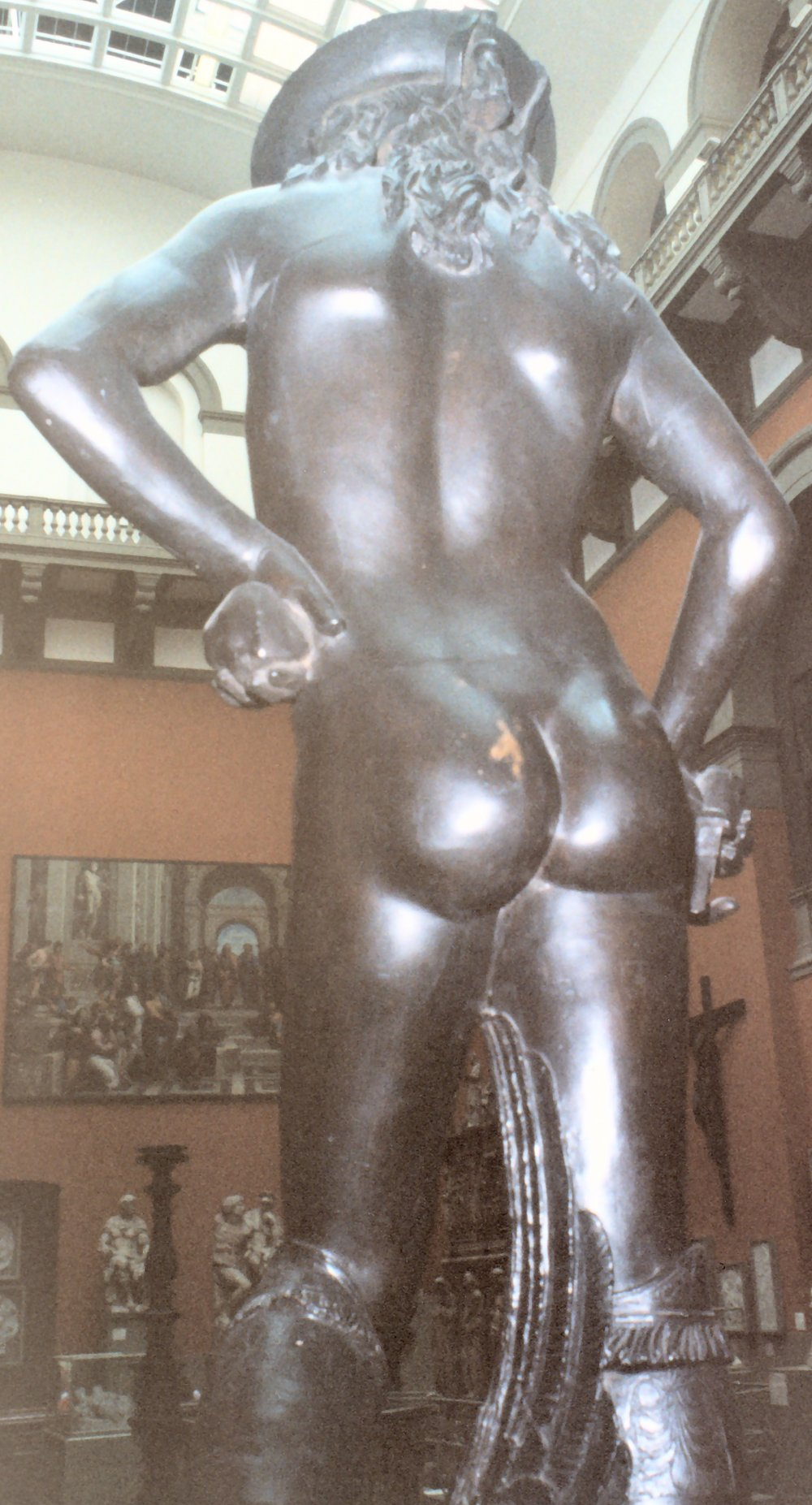 Painted plaster replica of Donatello's bronze David in the Cast Courts of the Victoria and Albert Museum, London. Figure cropped from background. Low wide angle back view. Note broken sword, peeling paint on left buttock, seams between plaster sections, and small projection behind right shoulder which is not a feature of the original. Photo by User:Lee M, 2000. Flash/skylight. Brightness and contrast manipulated for clarity.